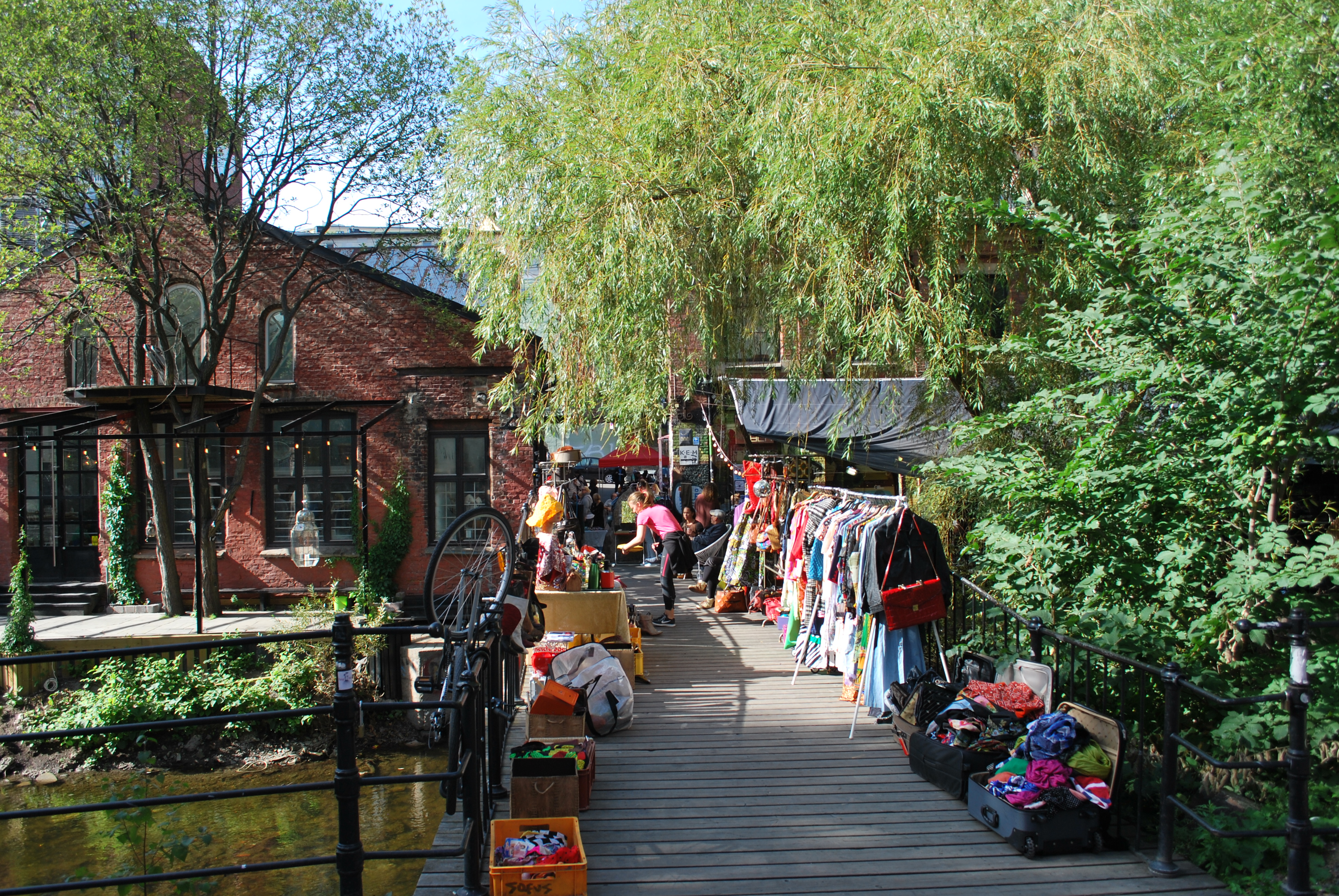 Blå, lower Grünerløkka, Oslo, sunday market. Bridge over Akerselva to Brenneriveien.